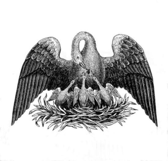 Logo of Empress Maria's department